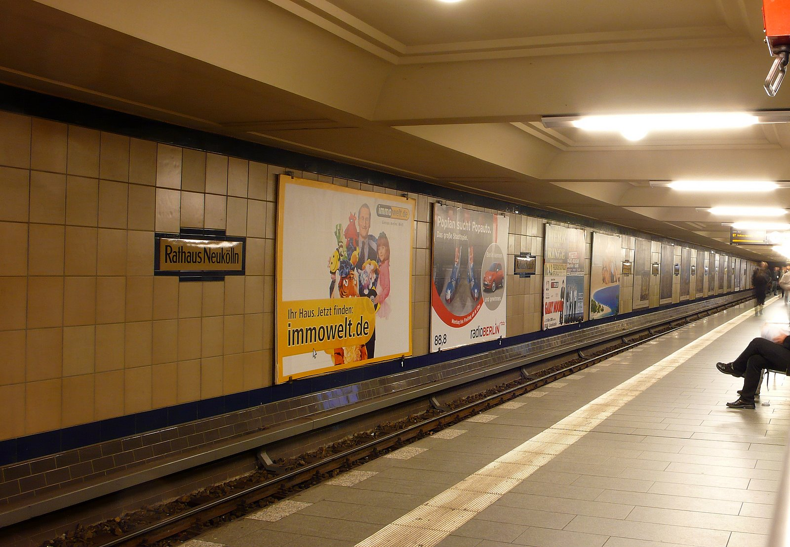 subway Rathaus Neukölln Berlin